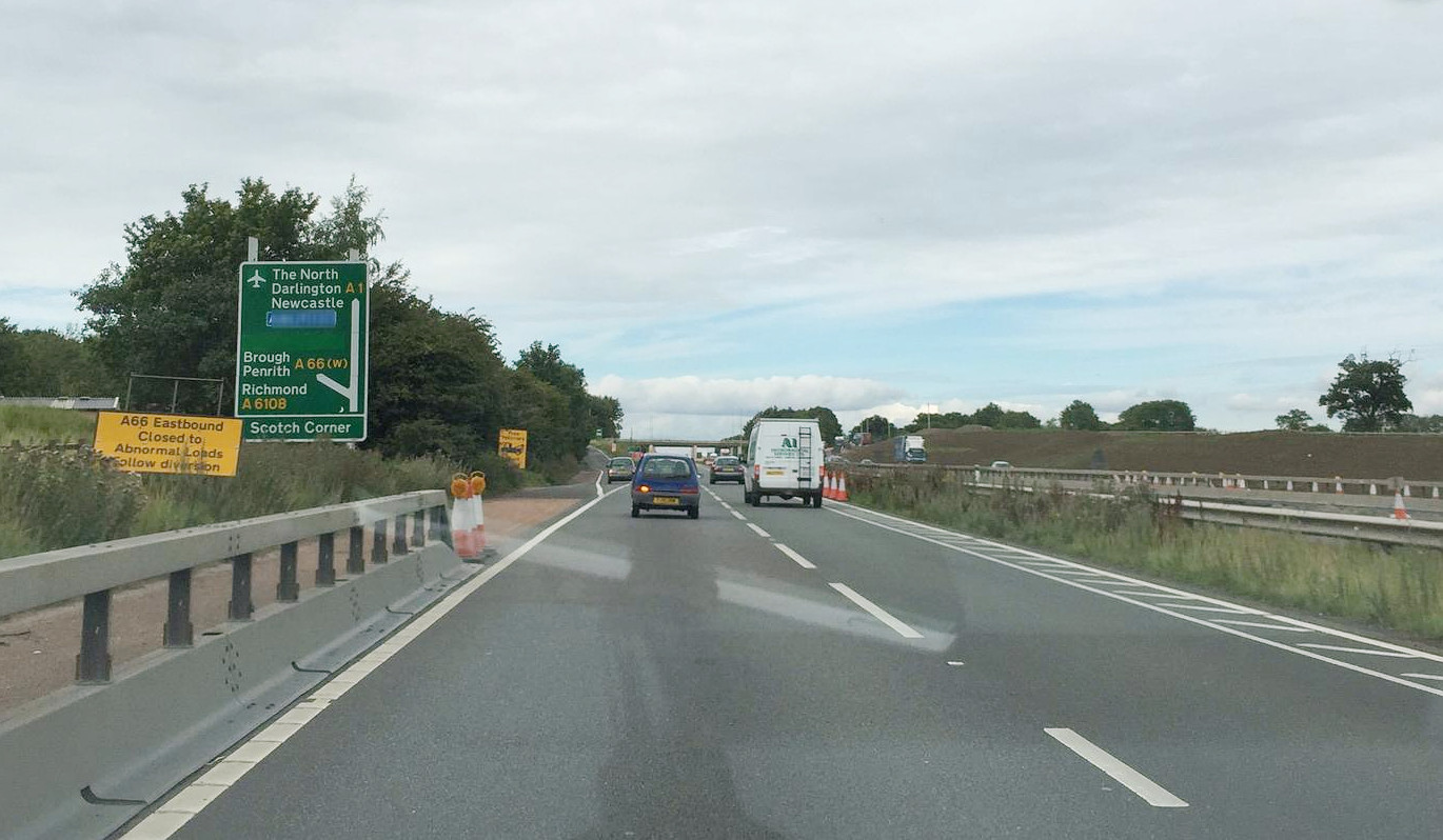 Approaching Scotch Corner on the A1 from the south